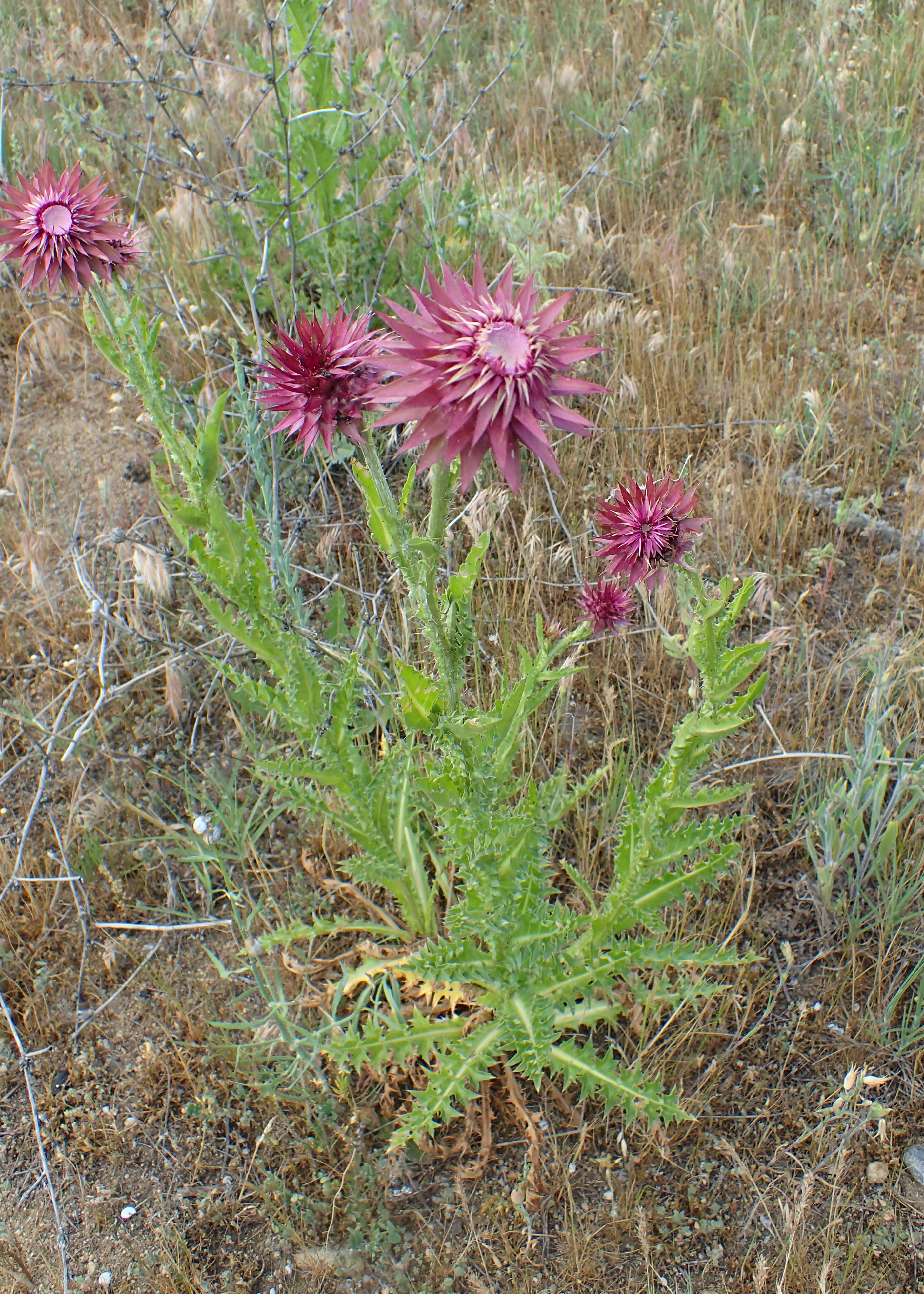 Carduus nutans subsp. leiophyllus, grassland in Blagoevgrad, SW Bulgaria